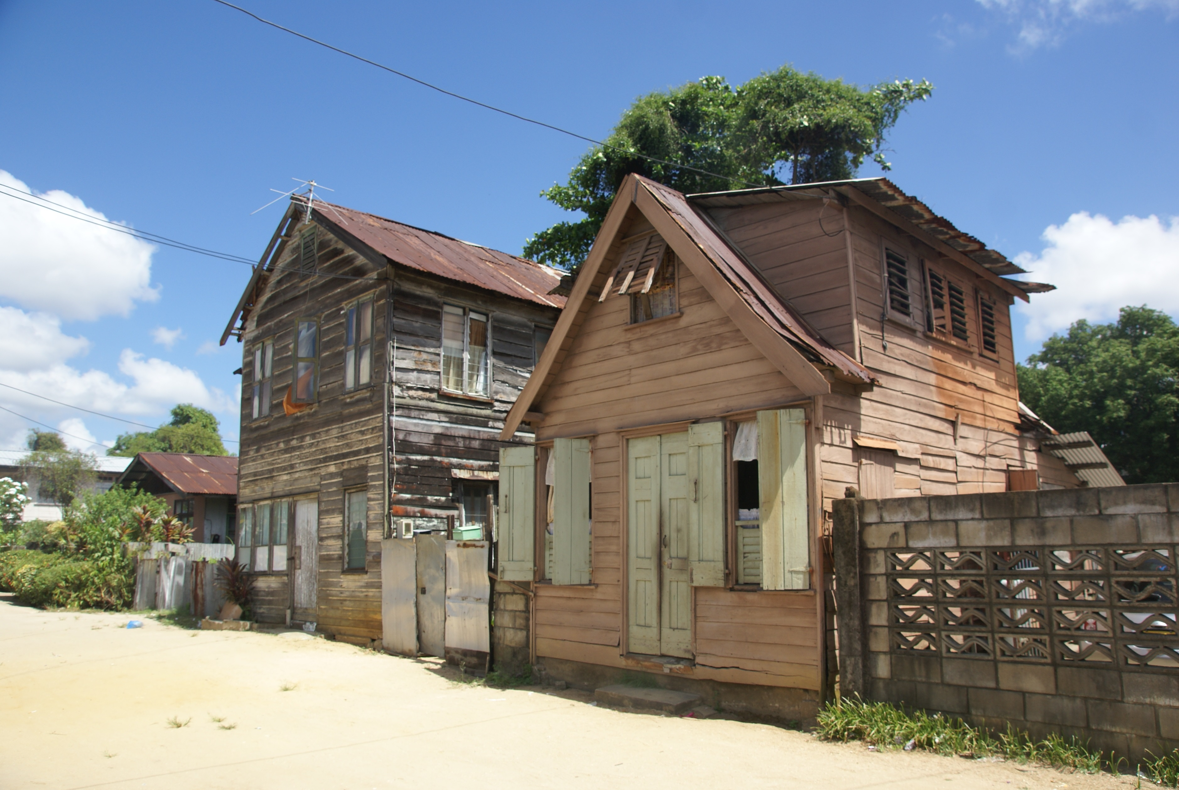 Houses, Gemenelandsweg, Paramaribo, Surinam.